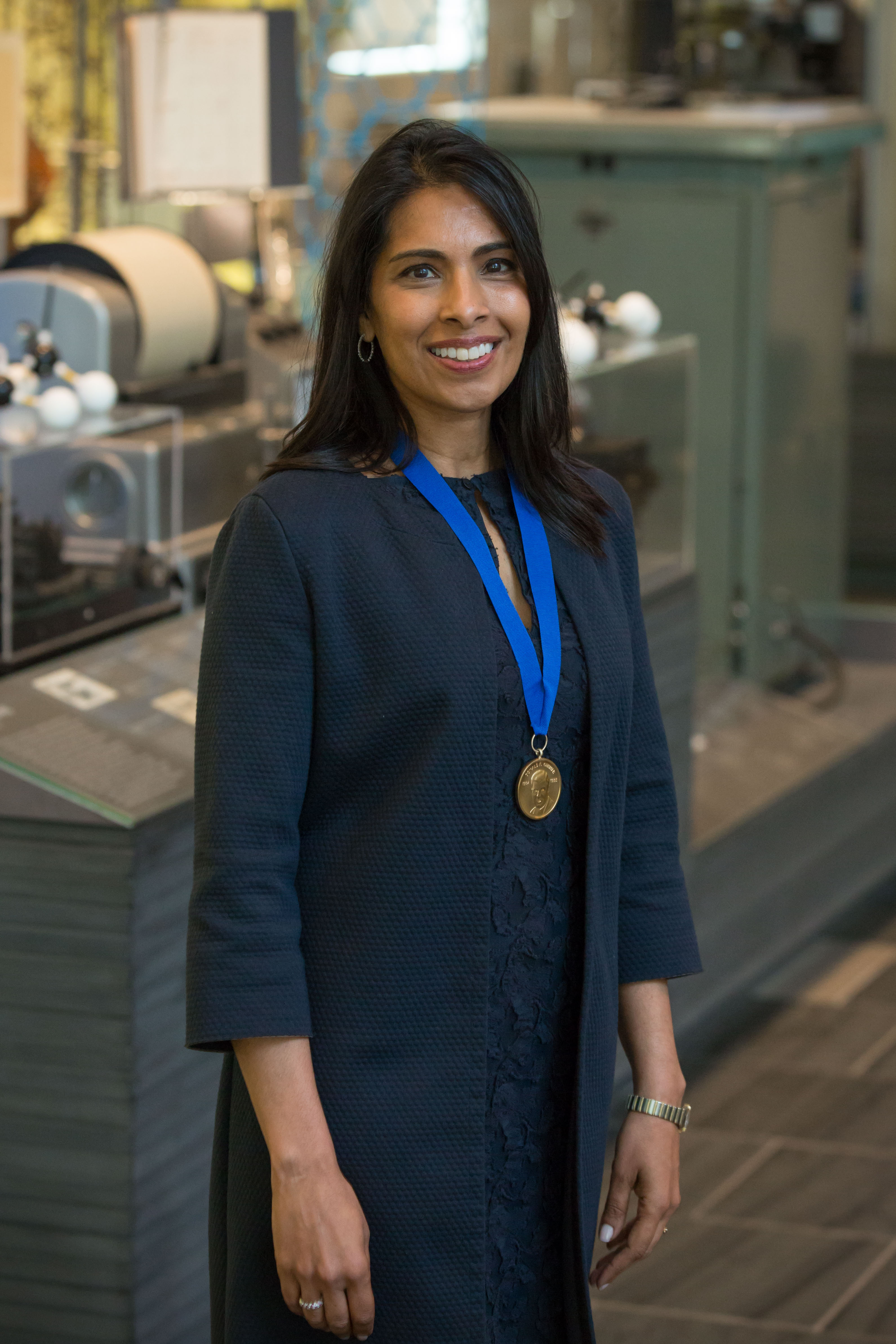 Photograph of biological engineer Sangeeta N. Bhatia, recipient of the Othmer Gold Medal, Heritage Day, May 8, 2019, at the Science History Institute, Philadelphia, PA.